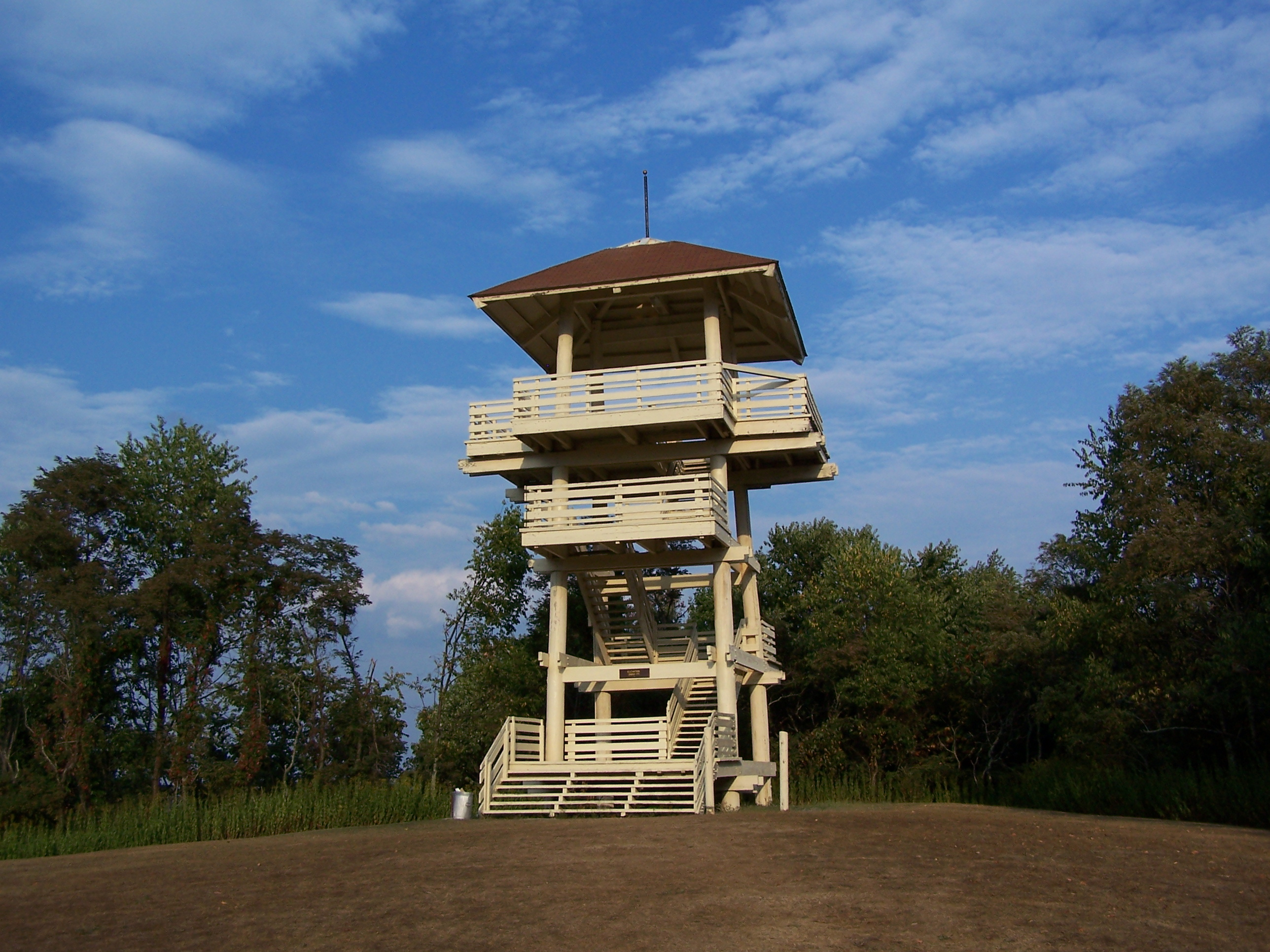 Lookout tower at Pipestem Resort State Park.